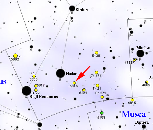 Map of NGC 5316